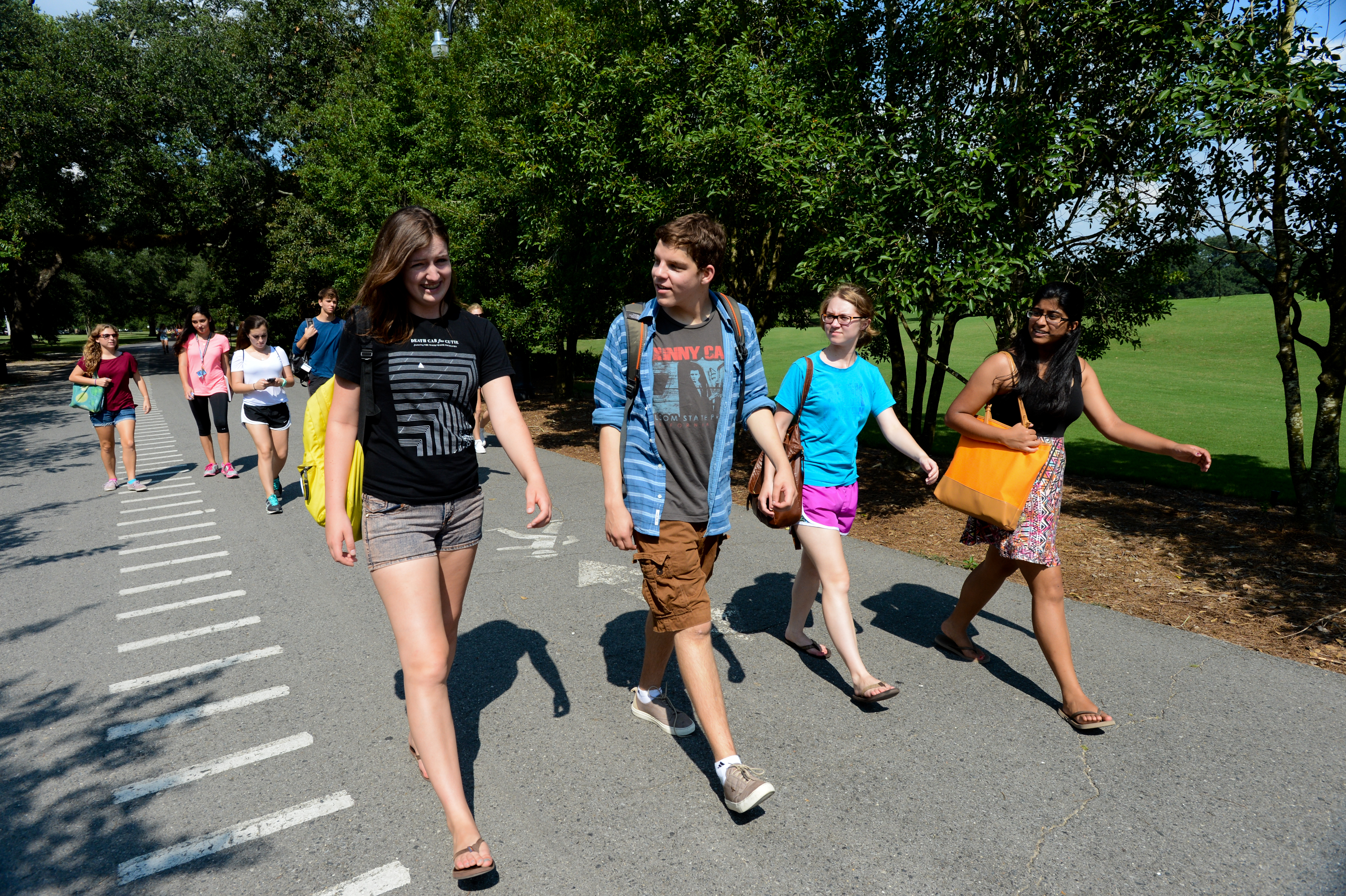 Andrew Stallings' Tide Class: "Invisible Cities." This is a "writing and thinking class" that takes walks when possible. On this day, they walked to the river and discussed an essay called "Atchafalaya" by John McPhee, that explores man-made control on the river that have kept it from moving to the west. September 9, 2013.